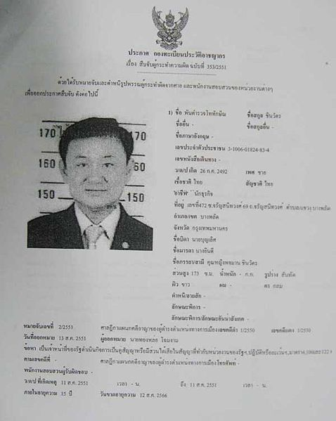 Arrest warrant of Thaksin Shinawatra, issued by the Royal Thai Police on August 13, 2003, after his flee to London and fail to appear in court on August 11, 2008